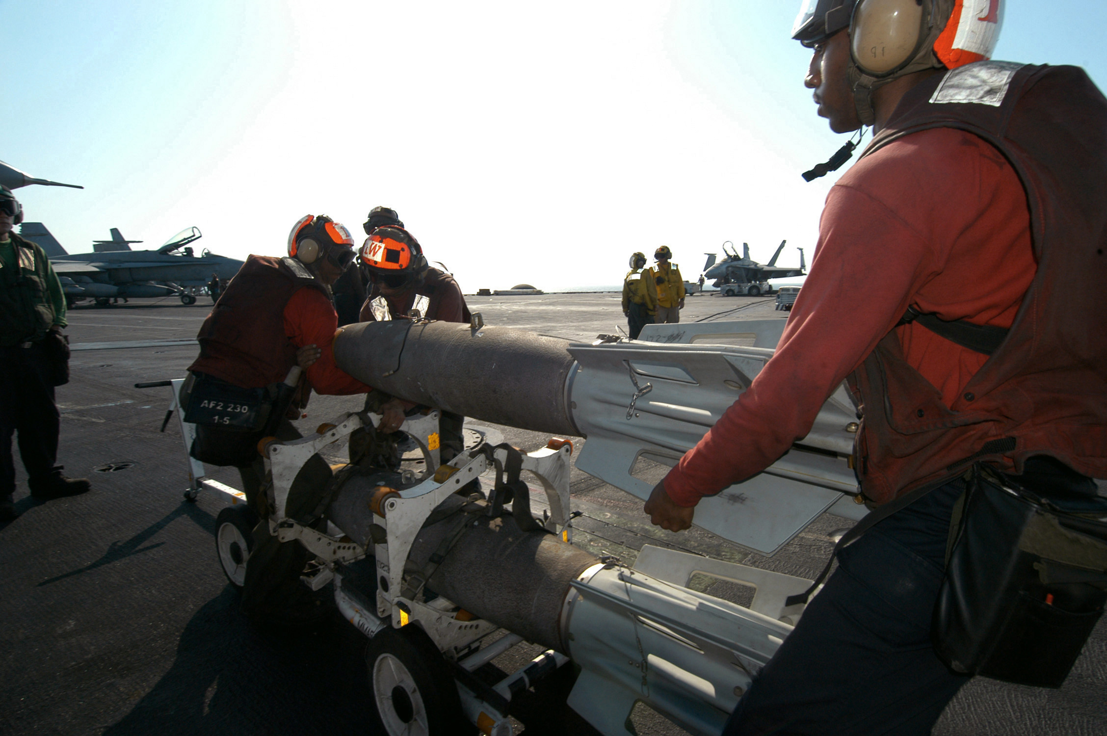 Onboard the US Navy (USN) Aircraft Carrier, USS JOHN F. KENNEDY (CV 67) Aviation Ordnancemen, assigned to Fighter Squadron One Zero Three (VF-103), position a Mark 83 1,000-pound general purpose bomb onto a skid, as aircraft assigned to Carrier Air Wing Seventeen (CVW-17) are prepared for missions, in support of Operation IRAQI FREEDOM.